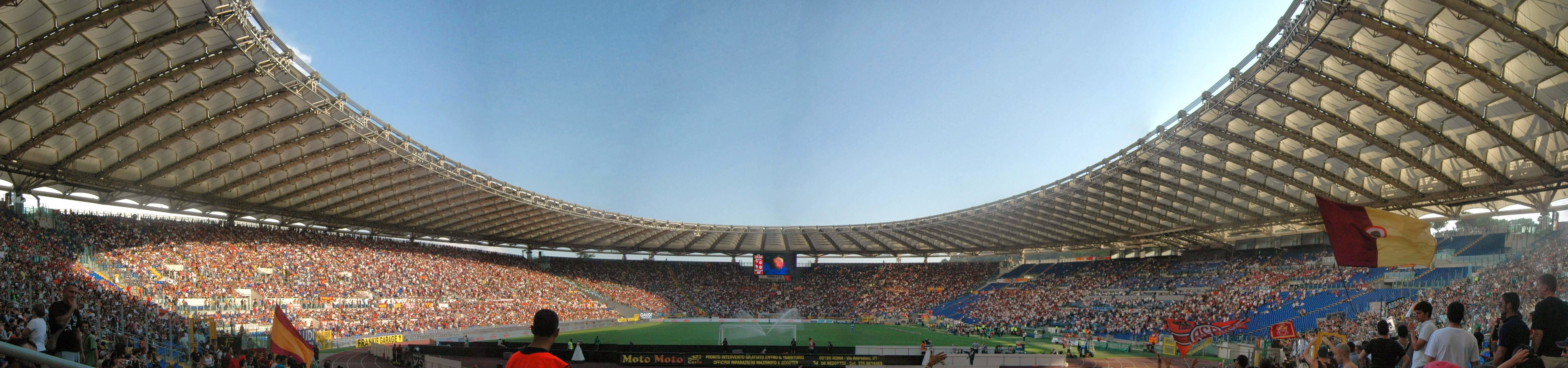 Stitched panorama of the Stadio Olimpico in Rome.